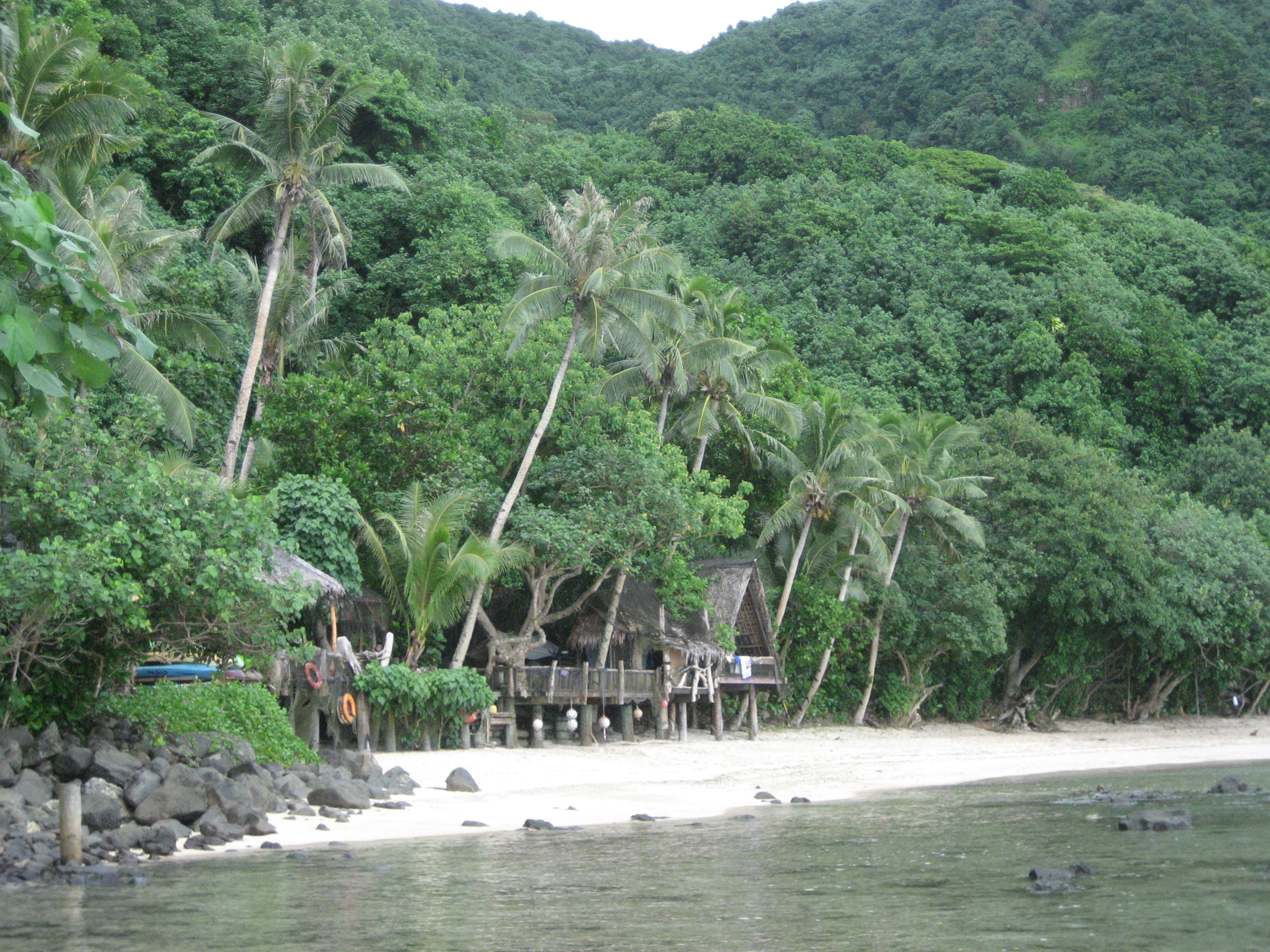 Deserted Beach near Tisa's Barefoot Bar